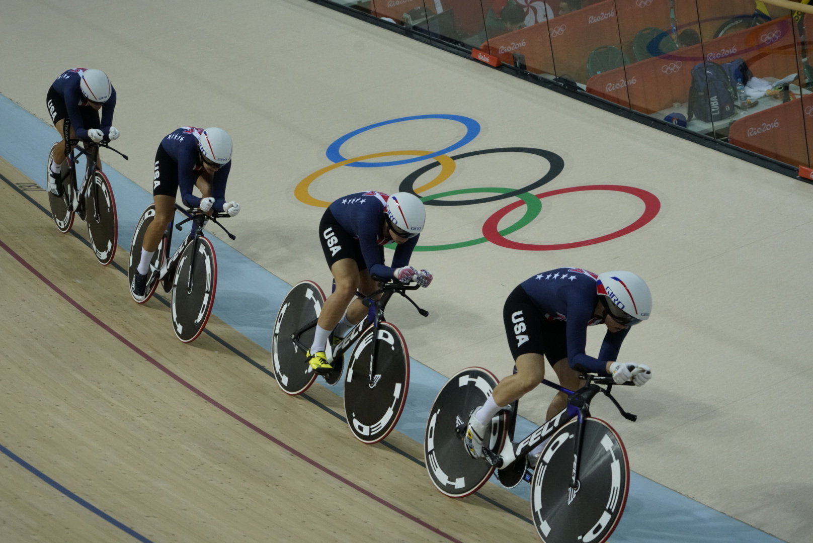 Kelly Catlin, at the front, pulling during the 2016 Olympics Team Pursuit qualifying round.